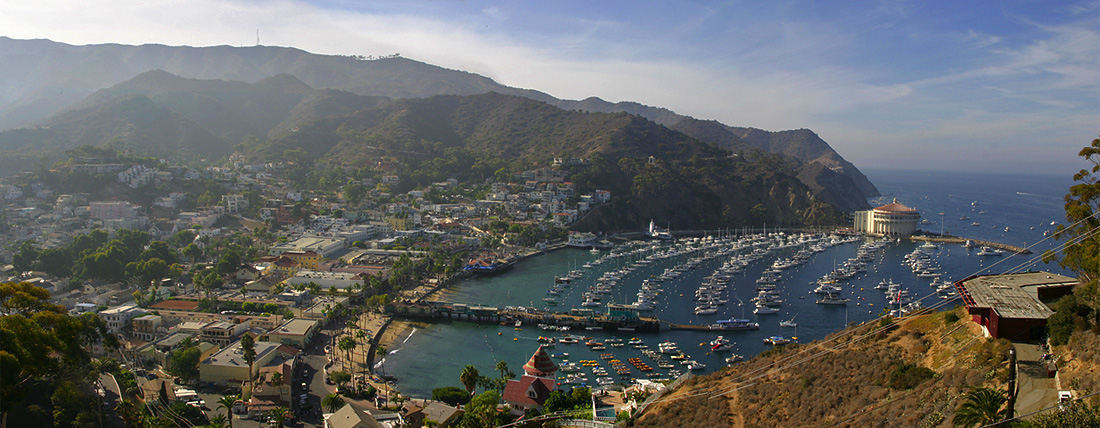 Avalon Bay (composite photograph)